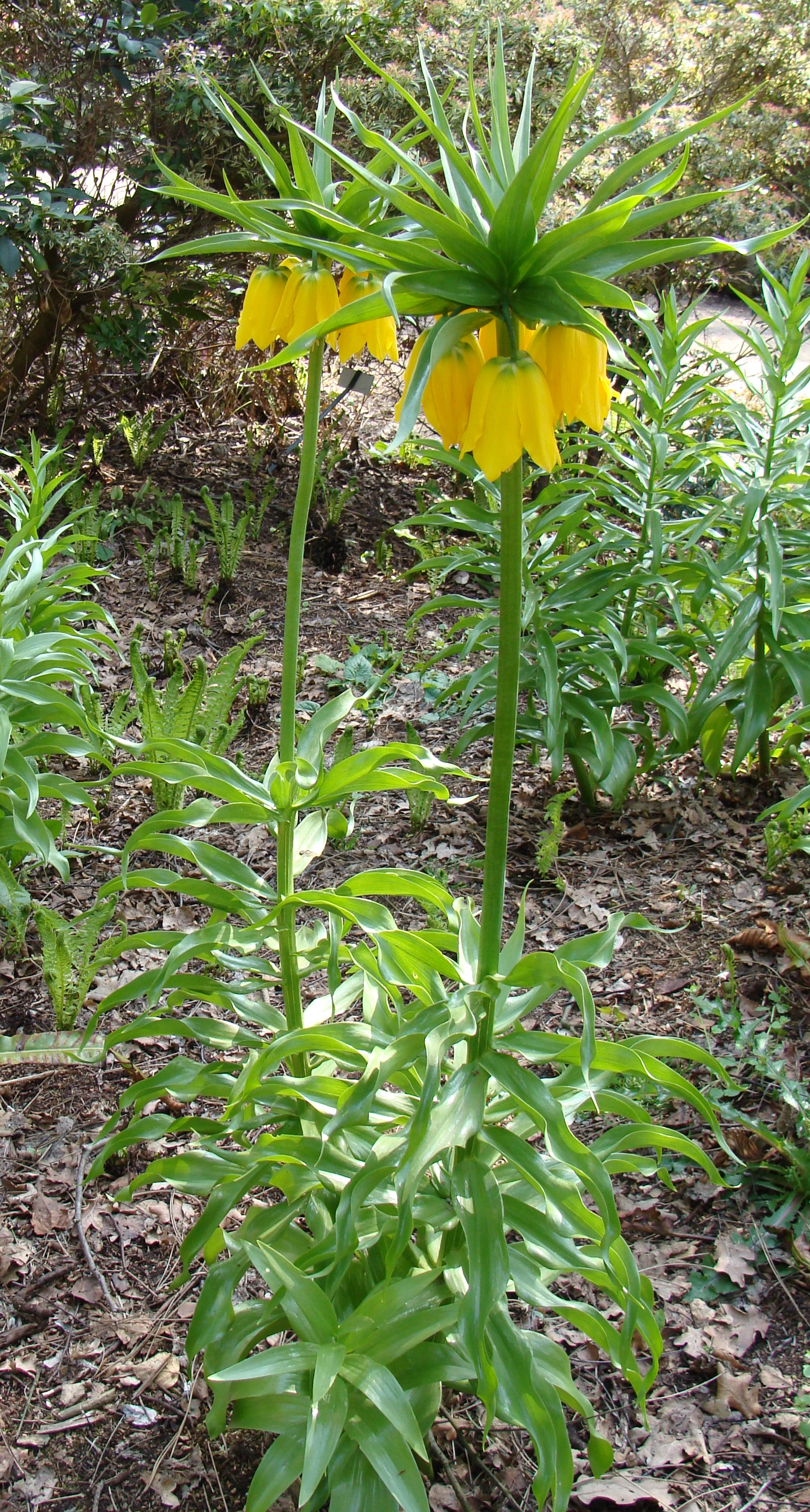 Fritillaria imperialis lutea (whole plant)